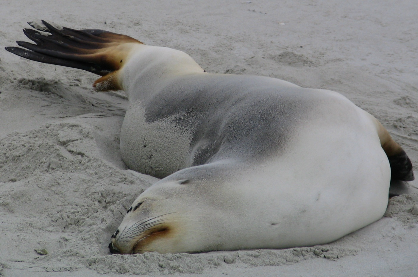 New Zealand Sea Lion fast asleep near the southern end of Victory Beach, Otago, New Zealand. Looked dead until it raised it's hind flippers.